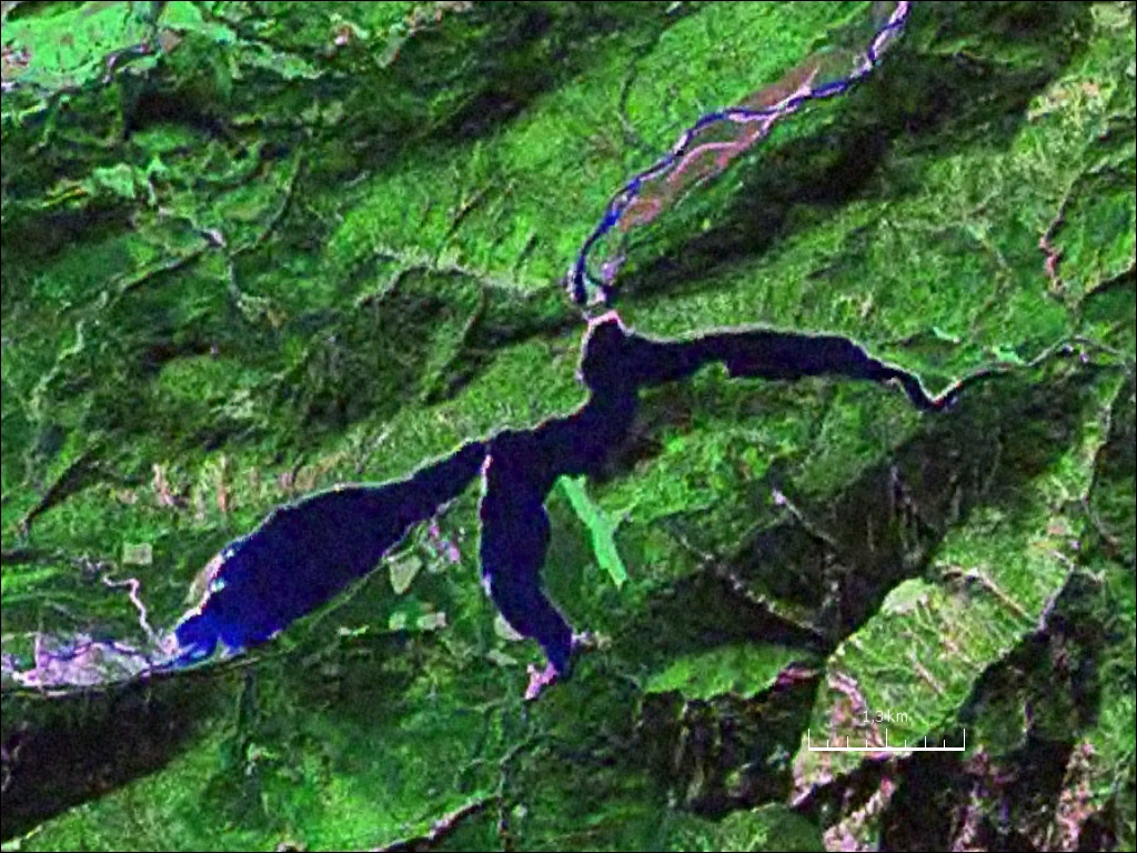 NASA Geocover 2000 image of Sylvenstein Dam and Lake, Alps of Upper Bavaria, Germany